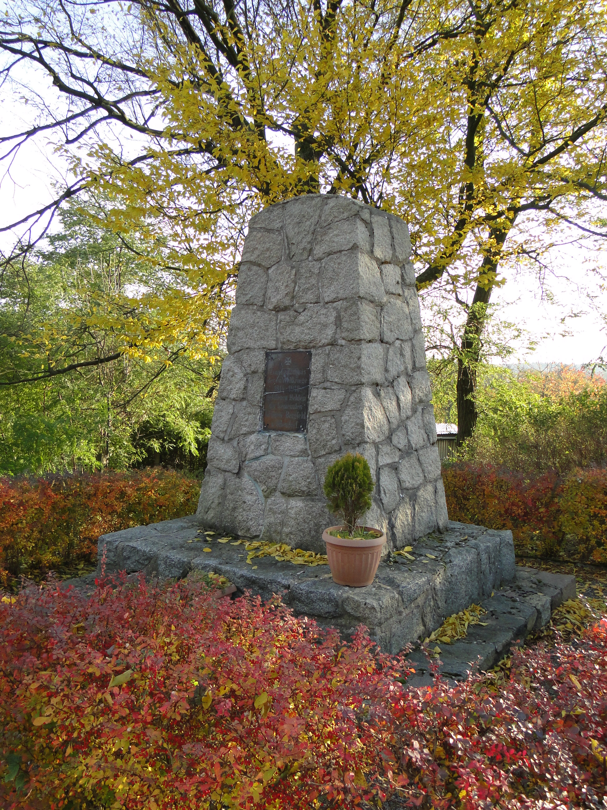 War memorial in Grünow, district Mecklenburgische Seenplatte, Mecklenburg-Vorpommern, Germany